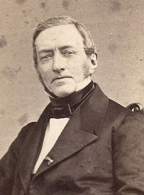 Schelto van Heemstra. Prime Ministers of the Netherlands (1861-1862)